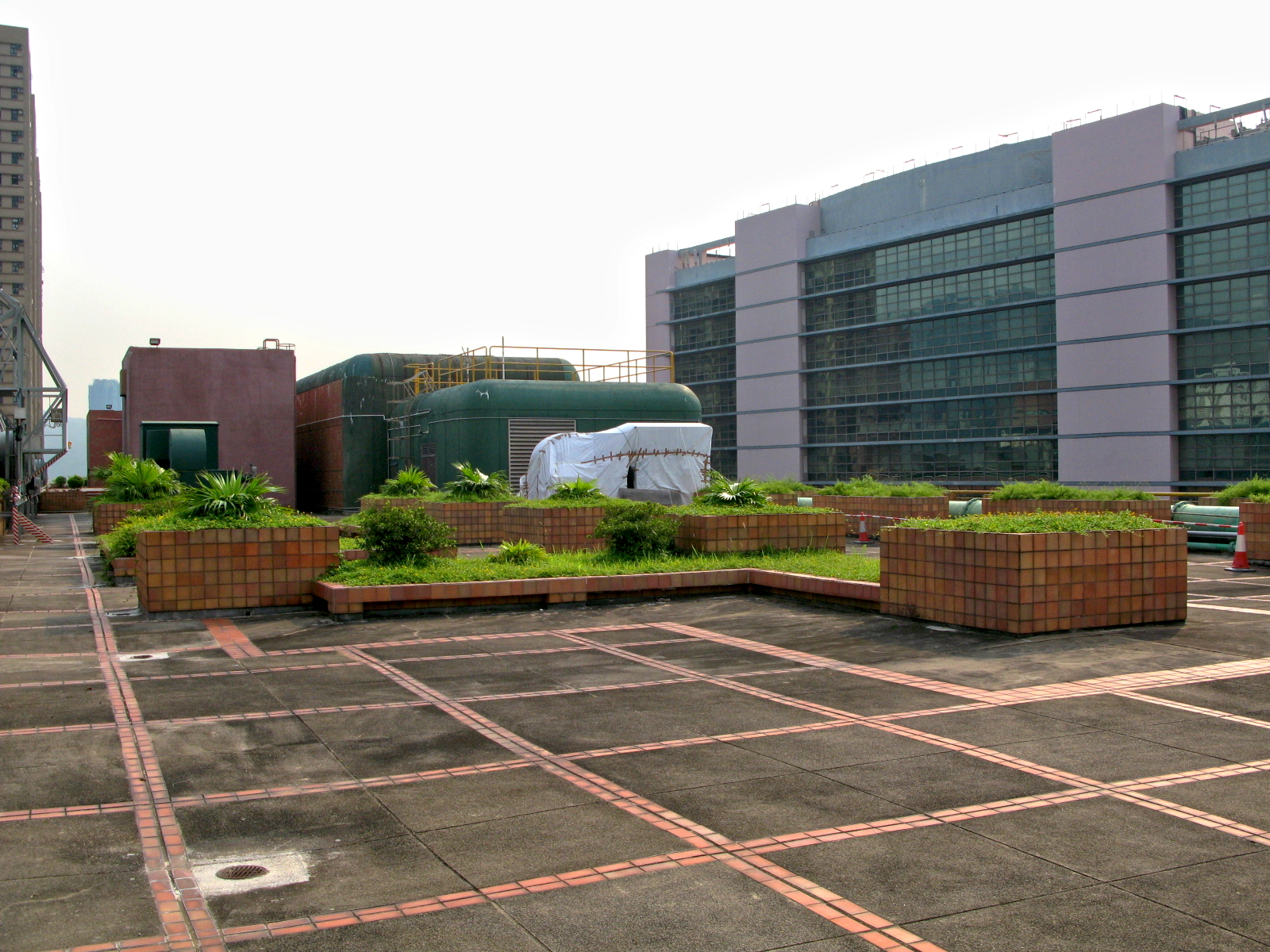 New Town Plaza Level 9 Garden 新城市廣場九樓平台